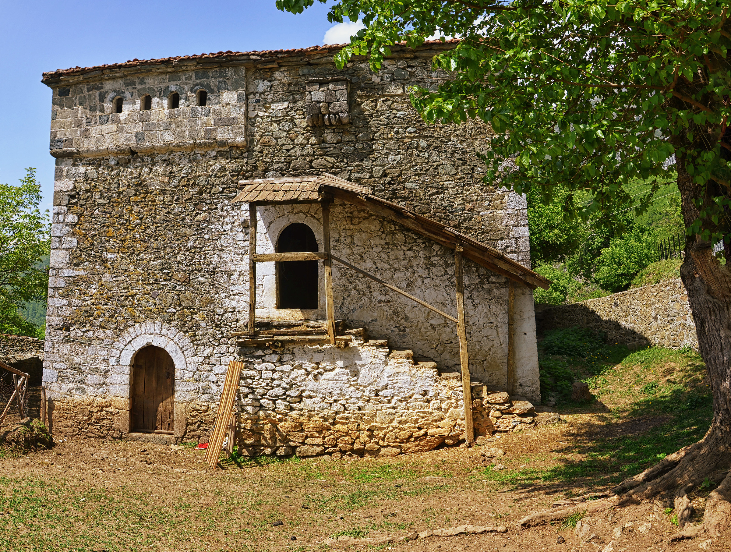 The fortified towerhouse (kullë) of the family Demaj in Papaj, Tropojë, Albania